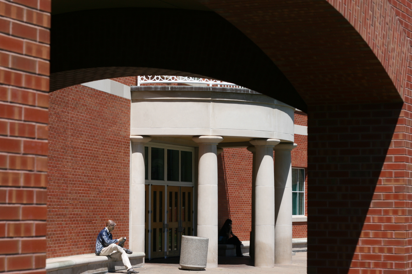 The Statue "Computing A Future" by J. Seward Johnson, Jr., the Grainger Engineering Library, University of Illinois at Urbana-Champaign